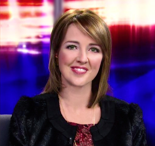 Christina Tobin